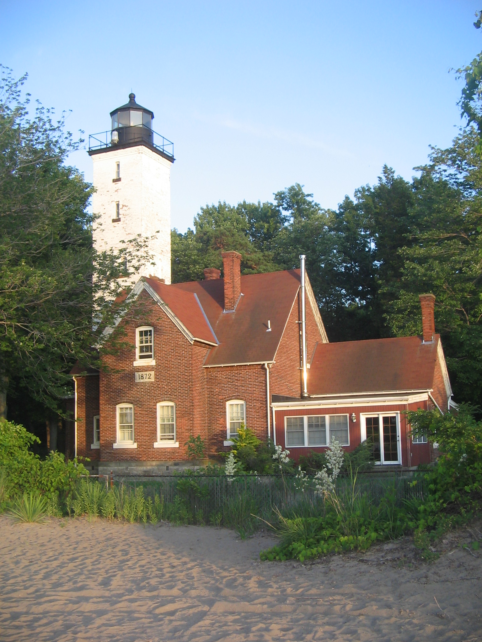 Presque Isle Light at Presque Isle State Park in Erie County, Pennsylvania, United States